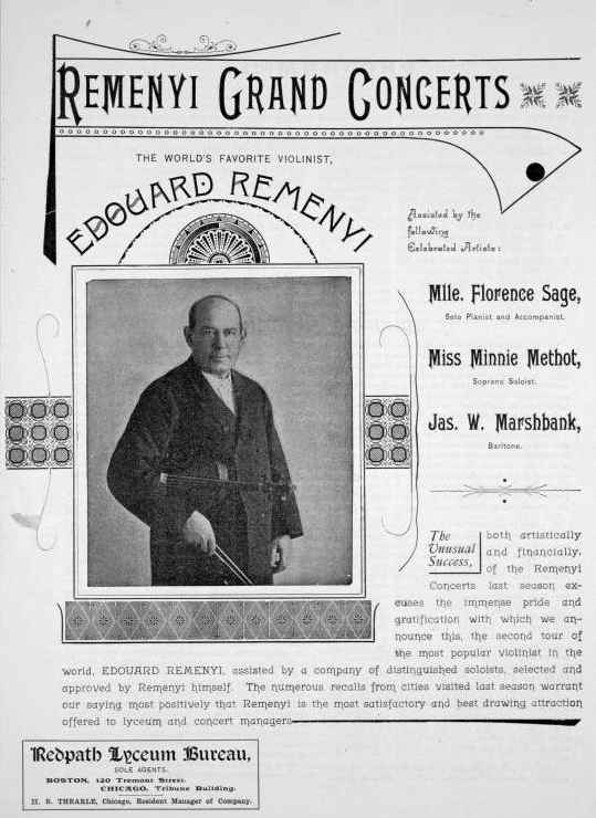 Front page of a concert program, Boston, 1891, for Hungarian violinist Ede Reményi (1828-1898).